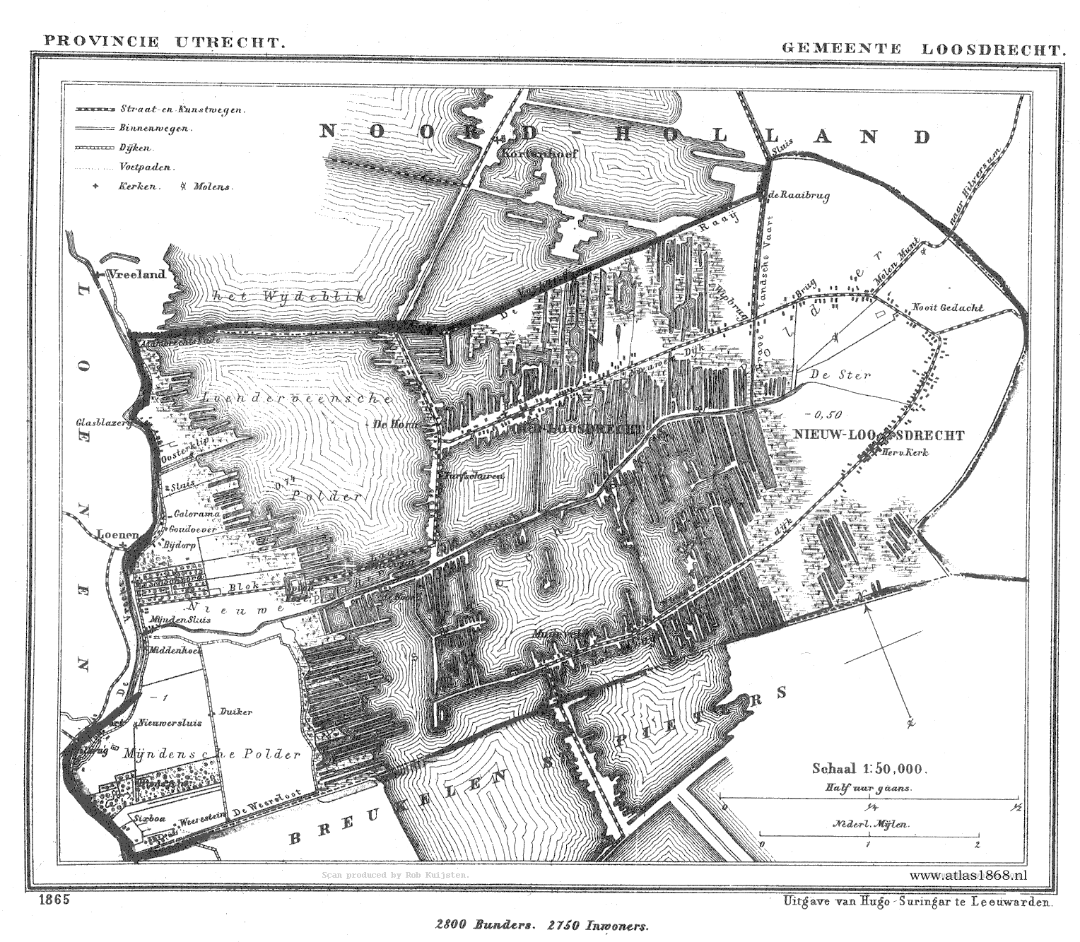 Map of Loosdrechtse Plassen from 1870